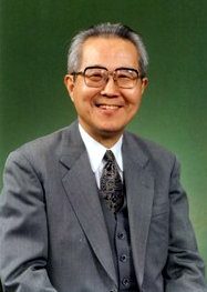 Takashi Negishi, Emeritus Professor of the University of Tokyo, received the Order of Culture on November, 2014.